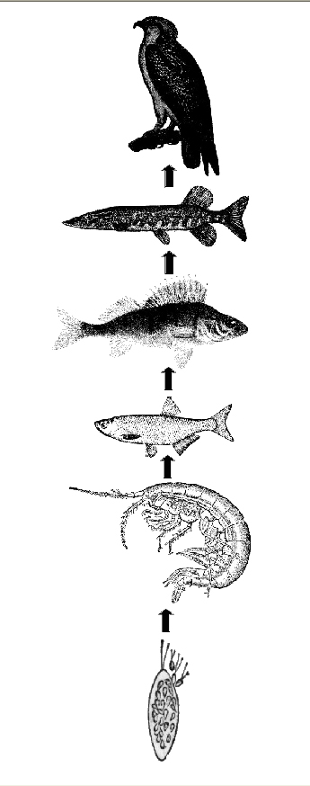 Foodchain